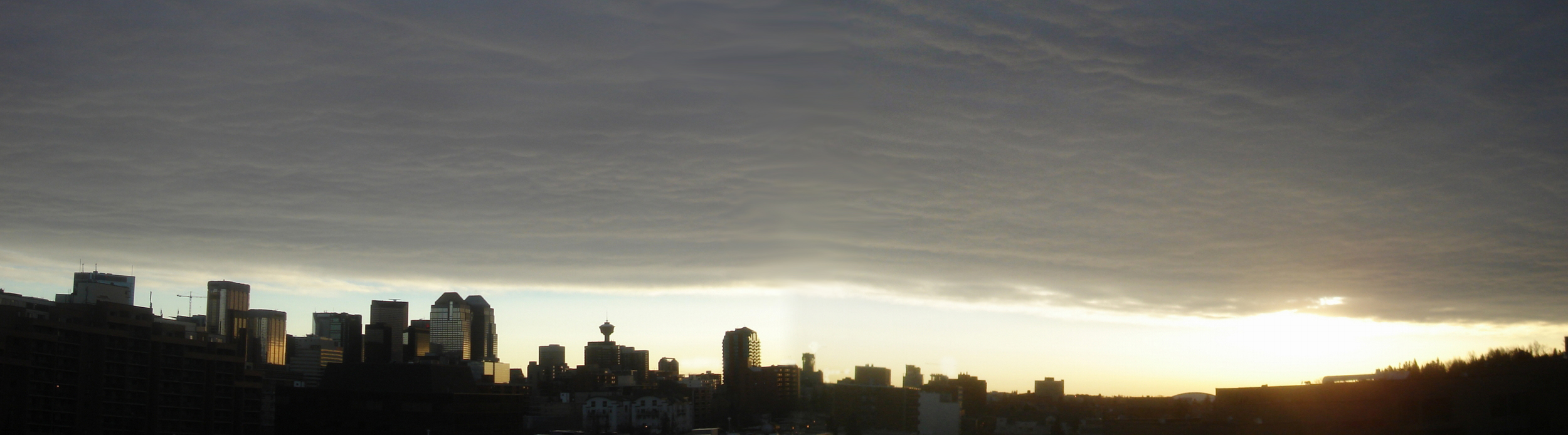 Chinook arch over the city of Calgary, Alberta, Canada